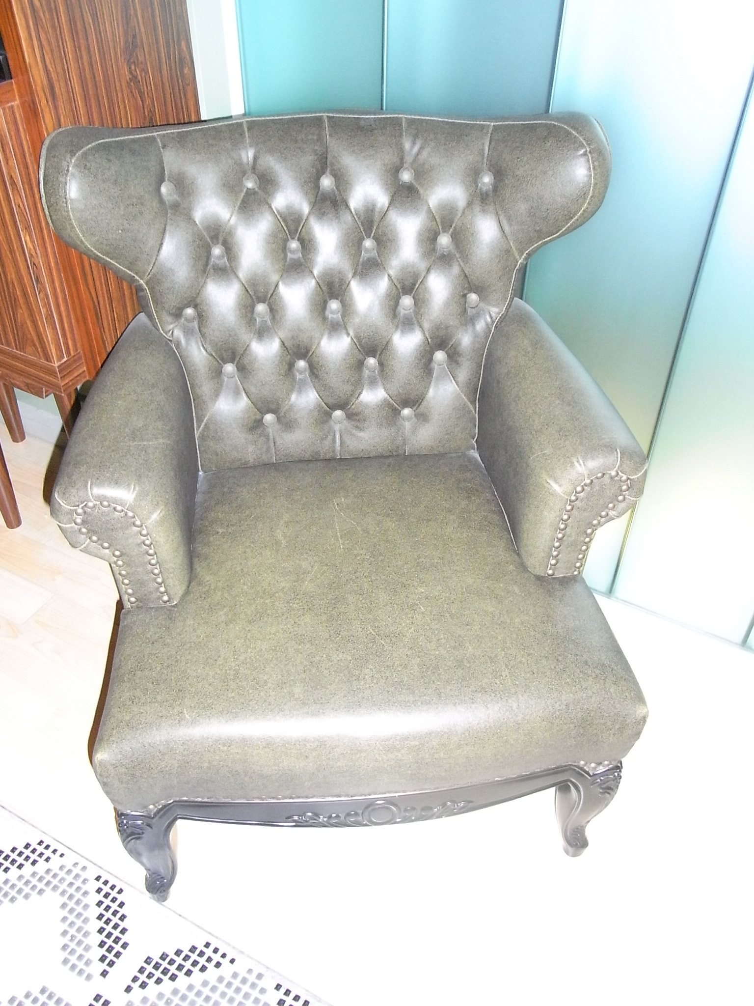 Wing armchair